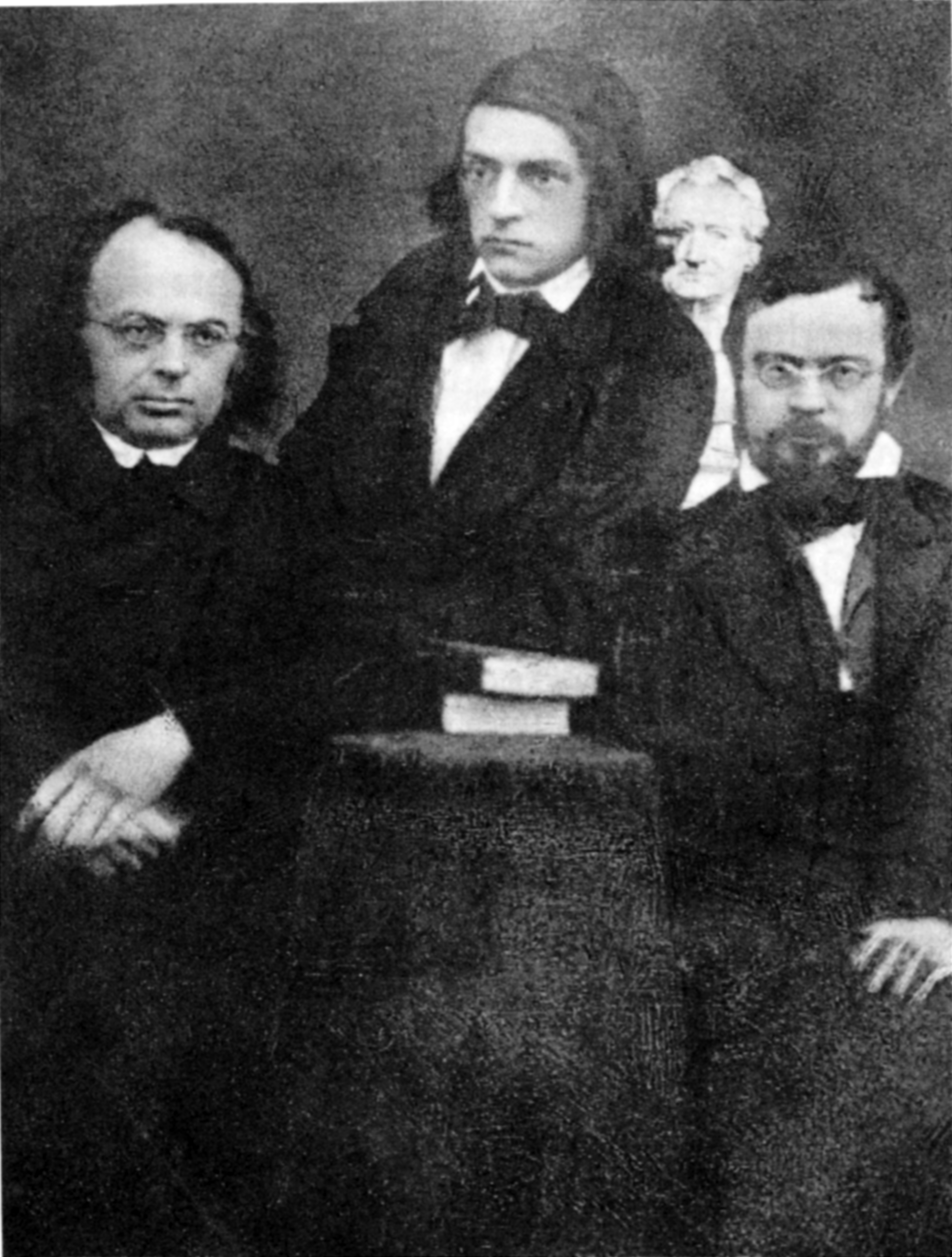 (From left to right:) Moritz Haupt, Theodor Mommsen, Otto Jahn in front of a Goethe bust. Leipzig 1848.